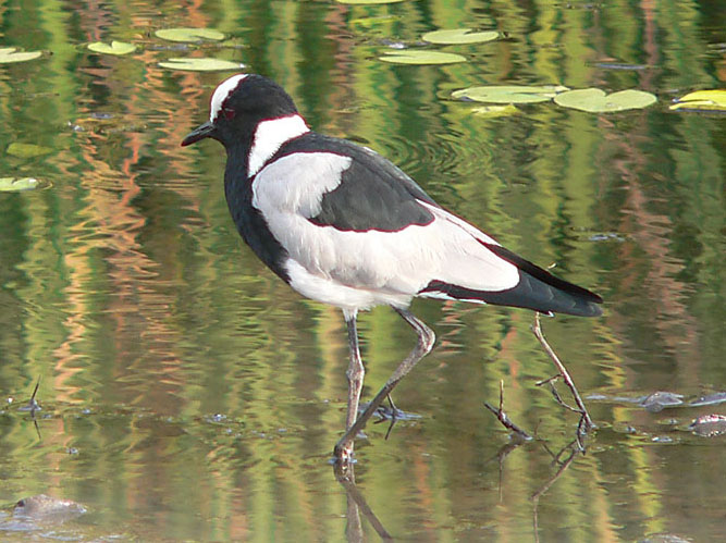 Blacksmith plover Vanellus armatus photographed in Nairobi National Park, Kenya.